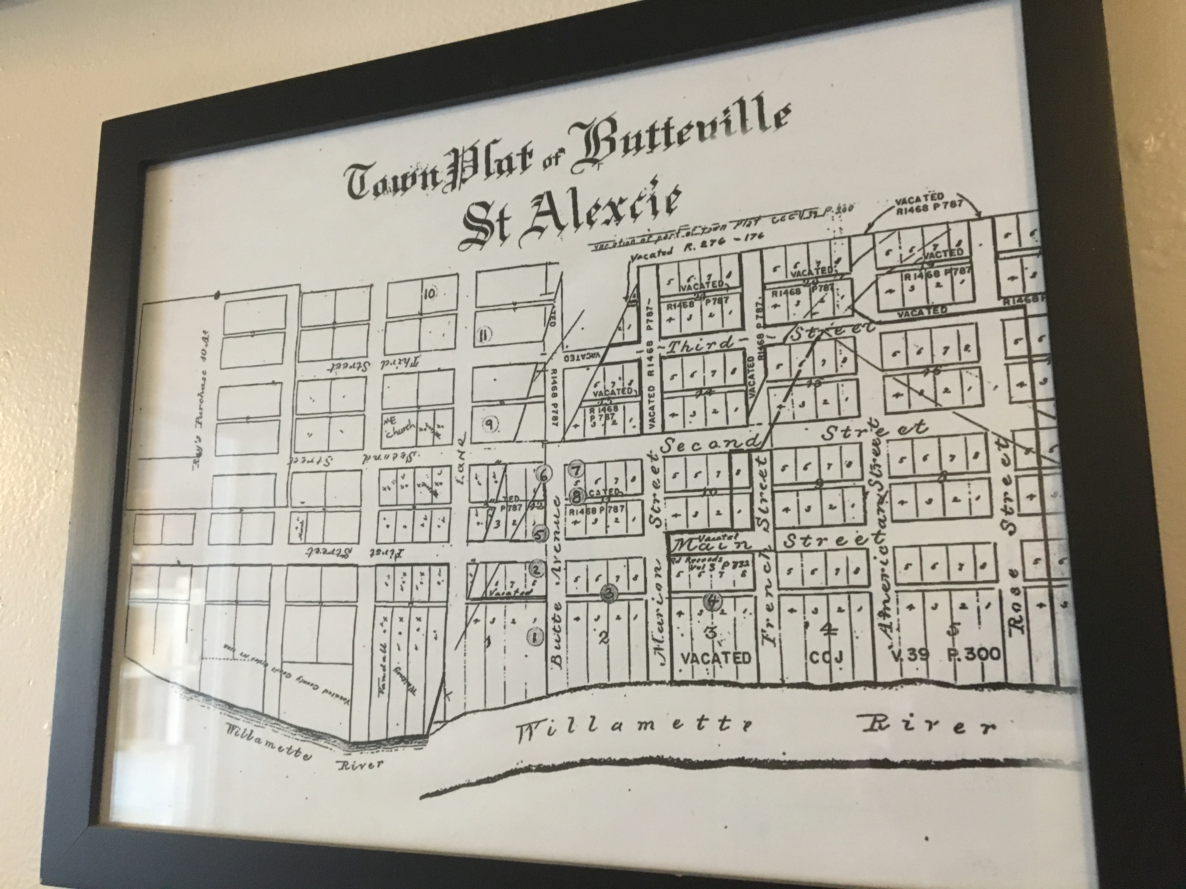 Butteville, Oregon town plat. Located inside the Butteville Store. The map was created by R.V. Short in November 1859. This work is in the public domain in its country of origin and other countries and areas where the copyright term is the author's life plus 100 years or fewer. This work is in the public domain in the United States because it was published (or registered with the U.S. Copyright Office) before January 1, 1925. This file has been identified as being free of known restrictions under copyright law, including all related and neighboring rights.